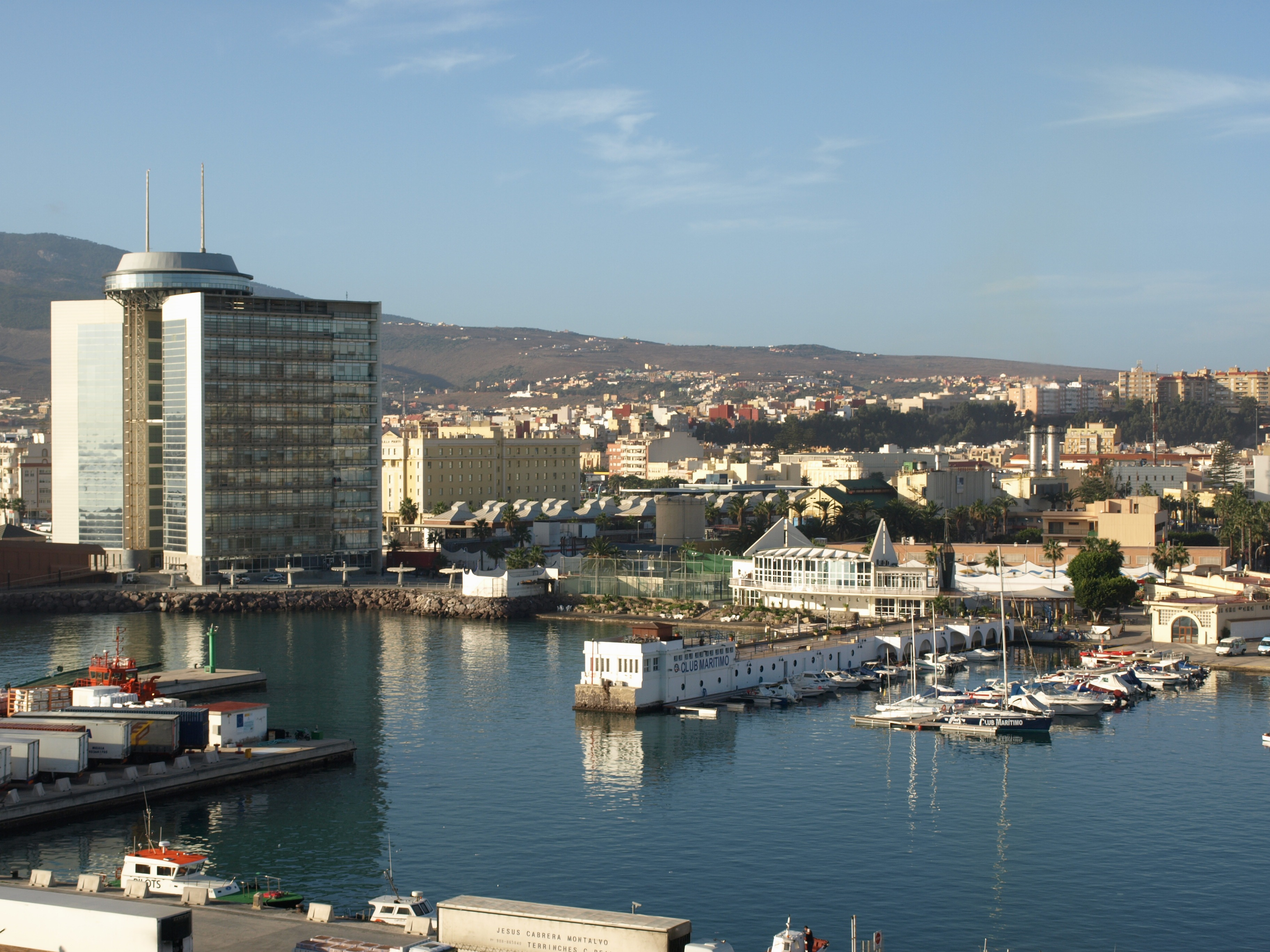 Port of Melilla, Spain.